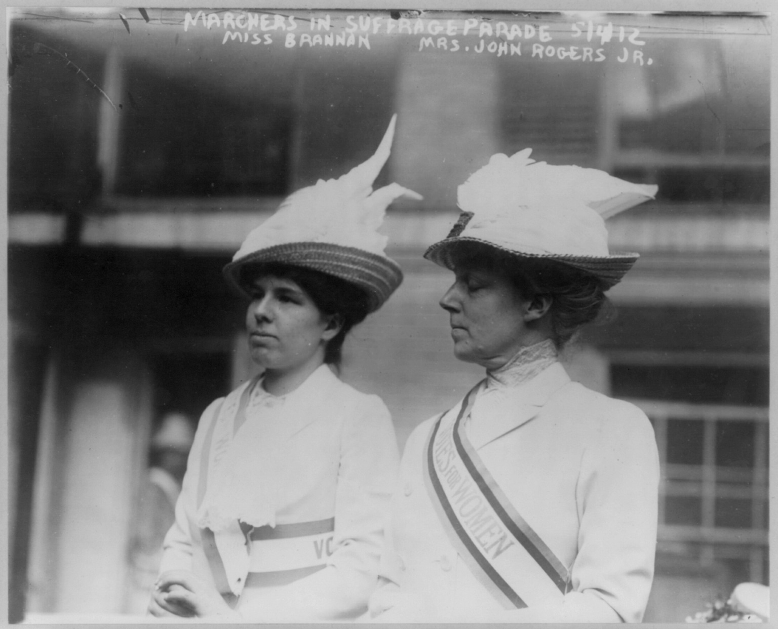 Miss Brannan and Elizabeth Selden Rogers (Mrs. John Rogers Jr.) march in a suffragette parade in 1912.